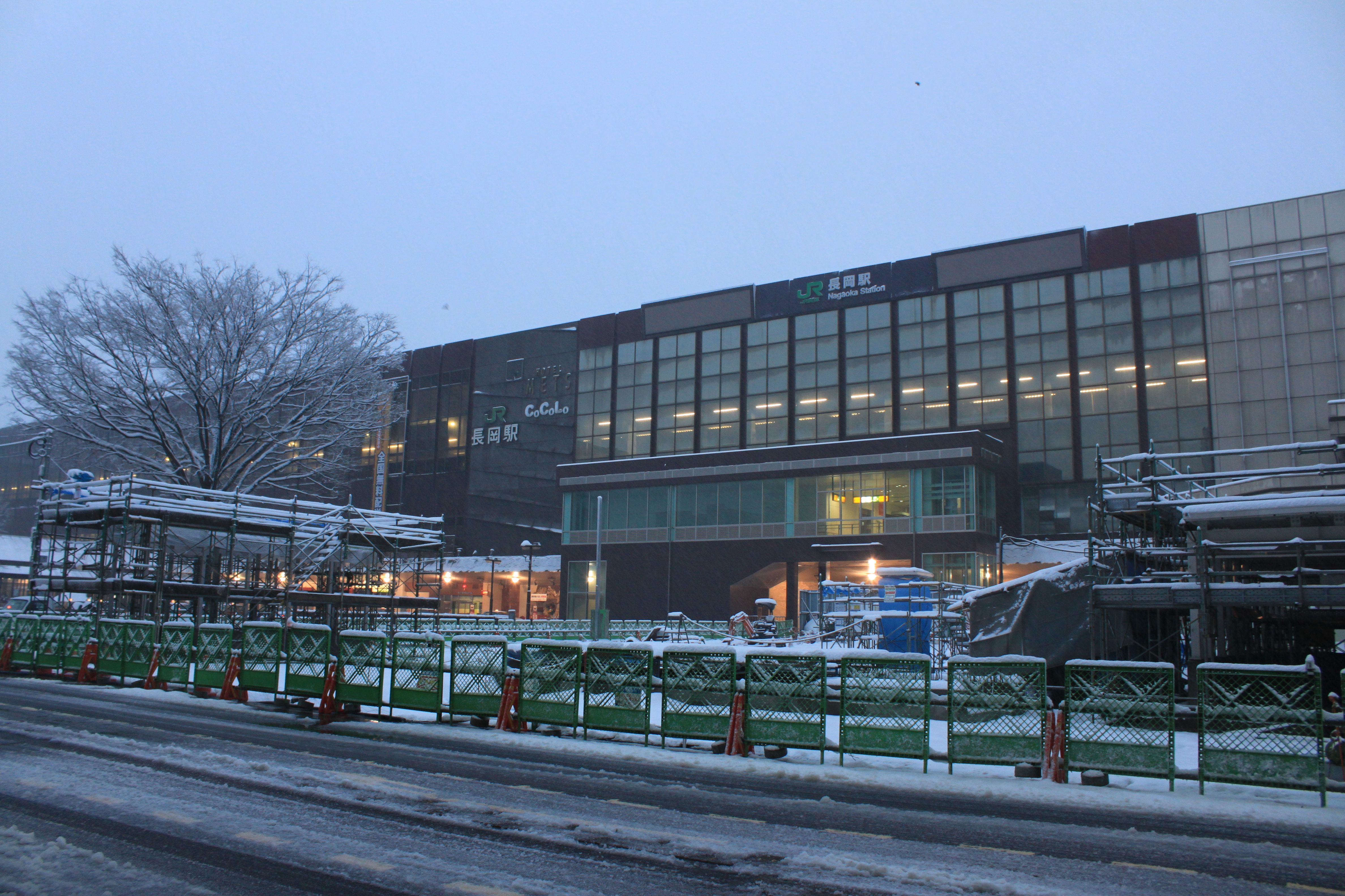 Nagaoka Station in Nagaoka, Niigata Prefecture, Japan